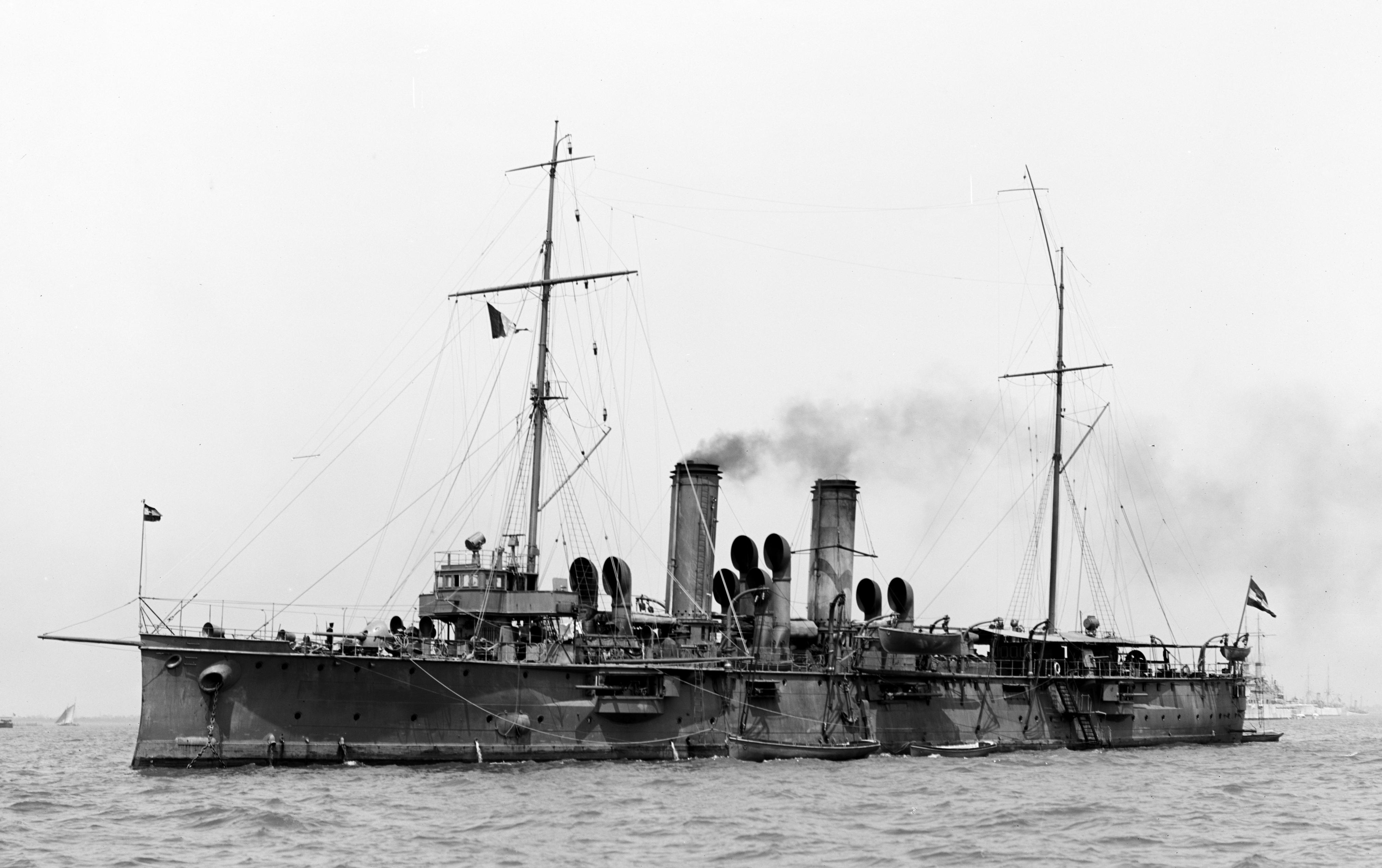 The Austro-Hungarian cruiser SMS Aspern during a visit to the United States in 1907.